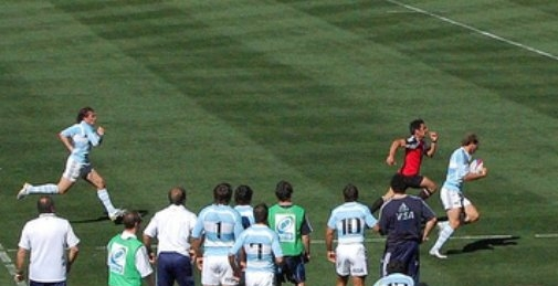 Argentina at San Diego 2008 Rugby Seven Tournament (frag)